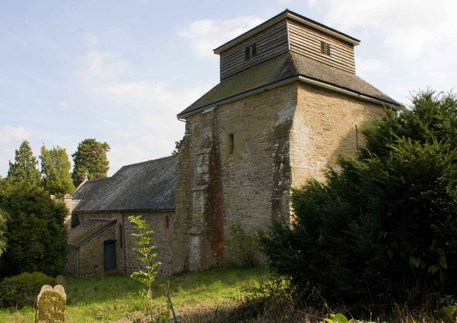 Hopesay Church, near to Hopesay, Shropshire, Great Britain. Church of St Mary